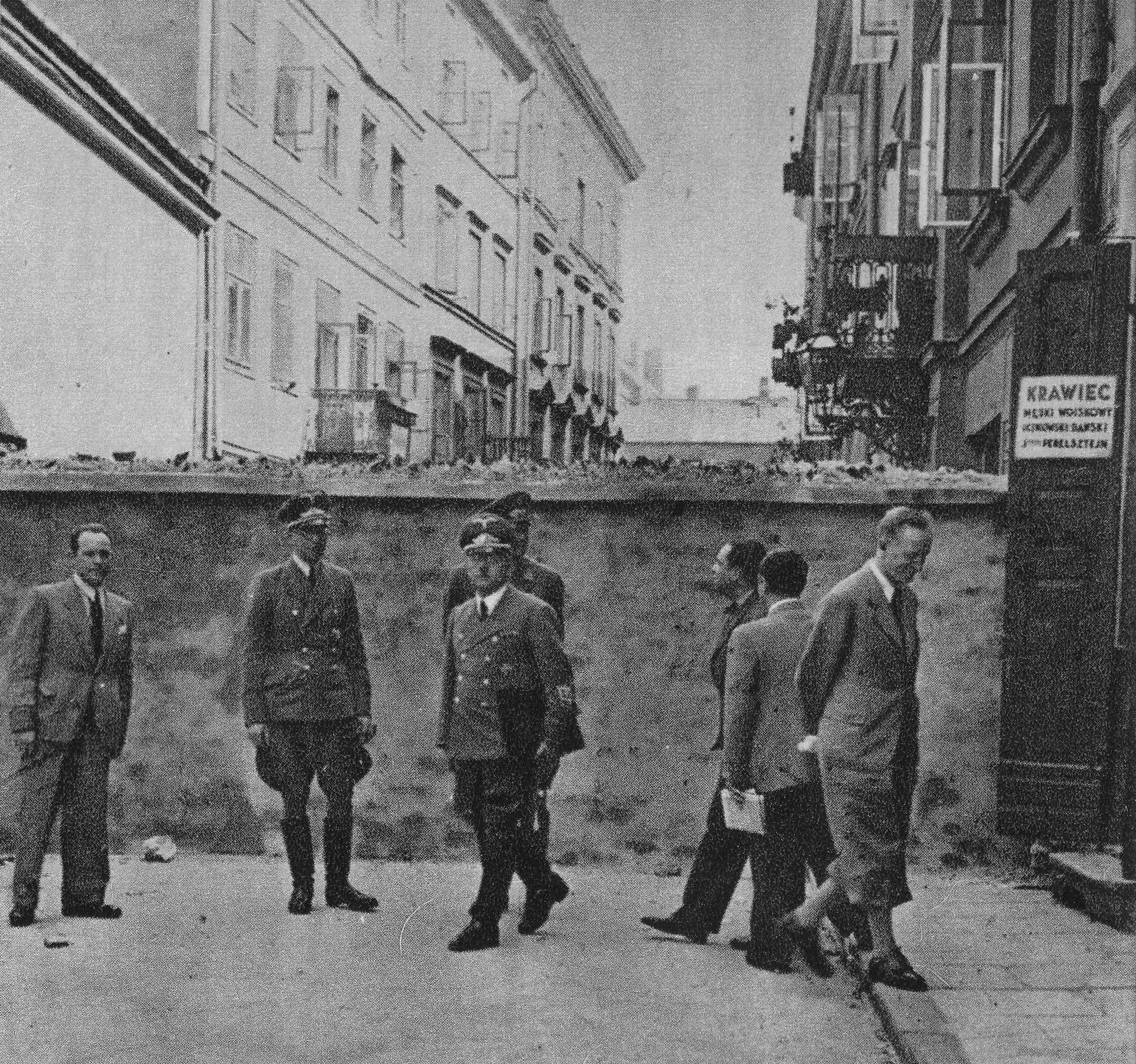 German offcials next to the Warsaw Ghetto wall